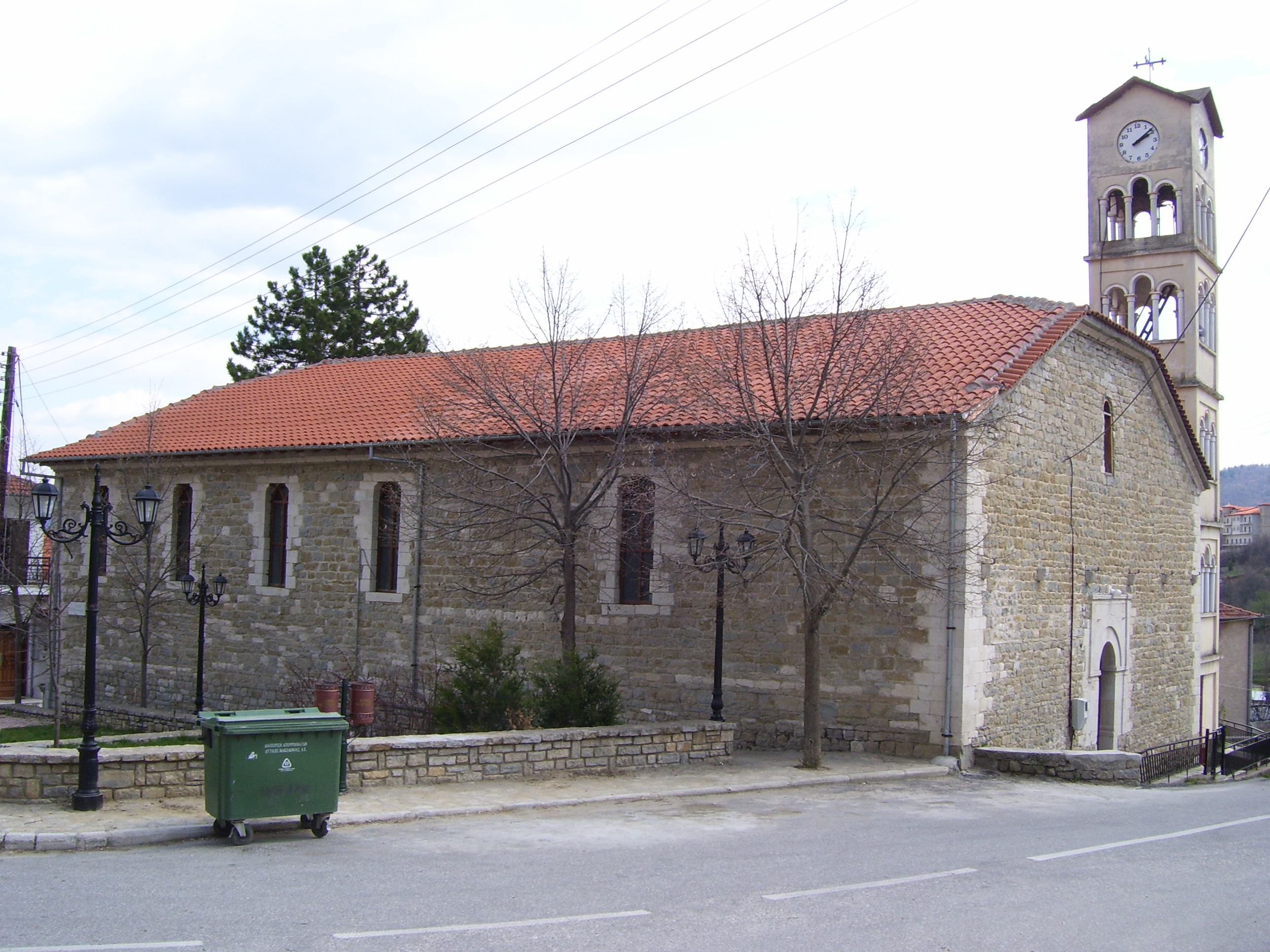 Church in the village of Ano Nestorio, Kastoria prefecture, Greece.